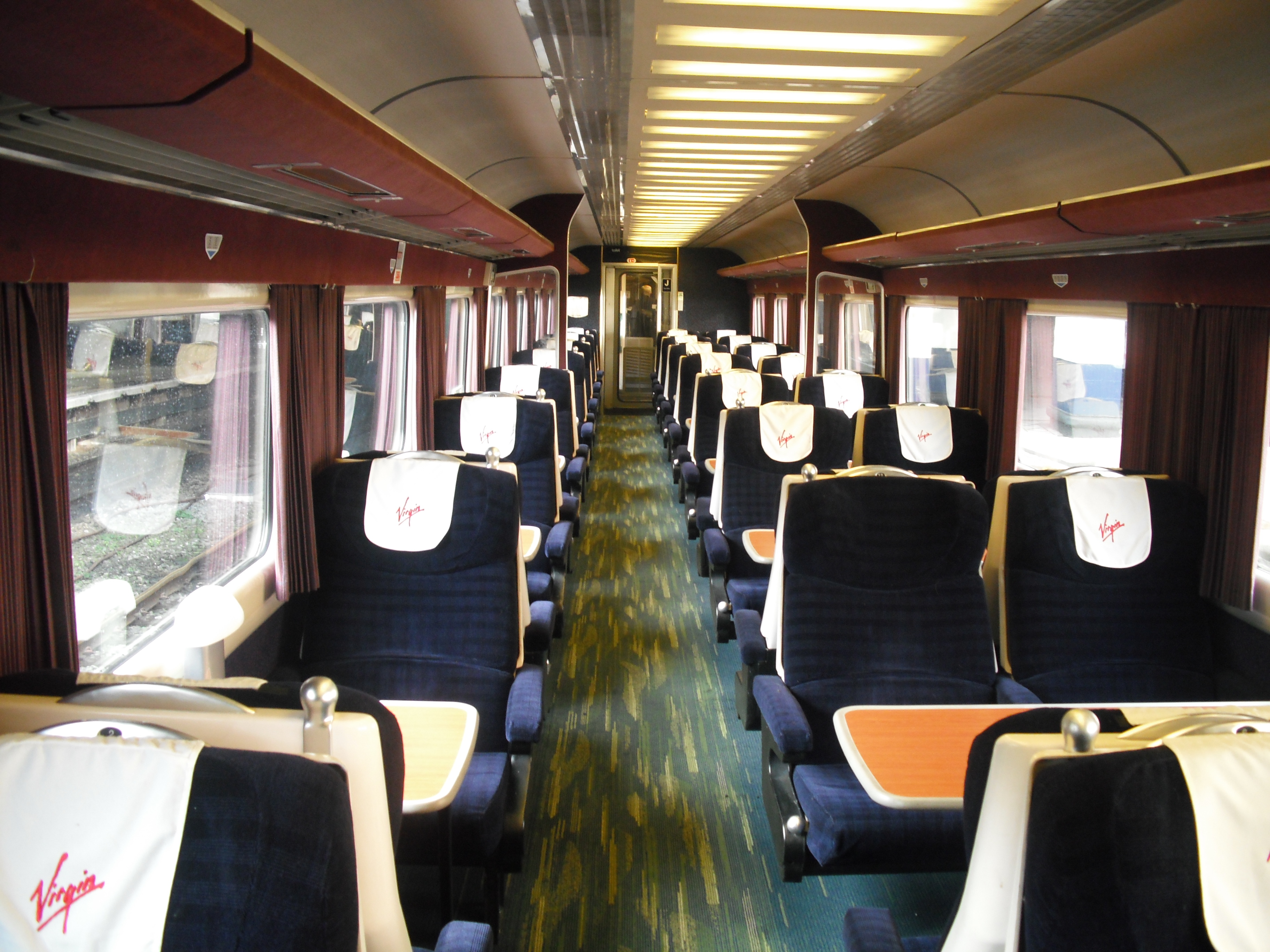 Interior of a Virgin West Coast First Class Open Mk3 carriage at Birmingham New Street